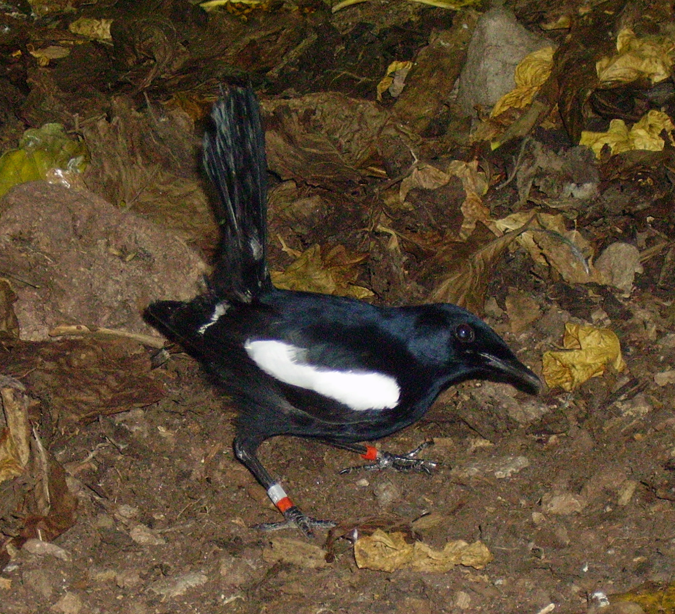 Seychelles-Magpie Robin (Copsychus Sechellarum), Male, island Cousin, Seychelles. Photo taken by User in May 2006